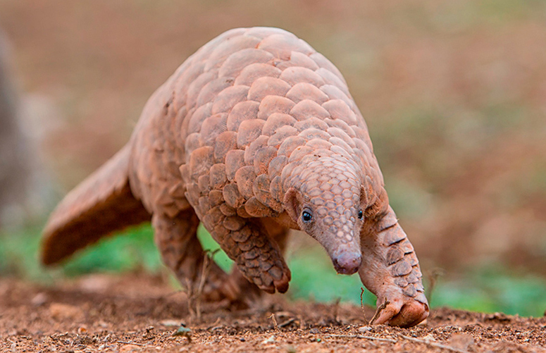 Photo credit to Ajit Huilgol The United States is co-sponsoring four separate proposals to increase CITES protections for pangolins from Appendix II to Appendix I